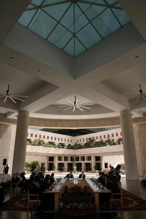 President Bush meets with young entrepreneurs at the Indian School of Business Learning Resource Center in Hyderabad, India.